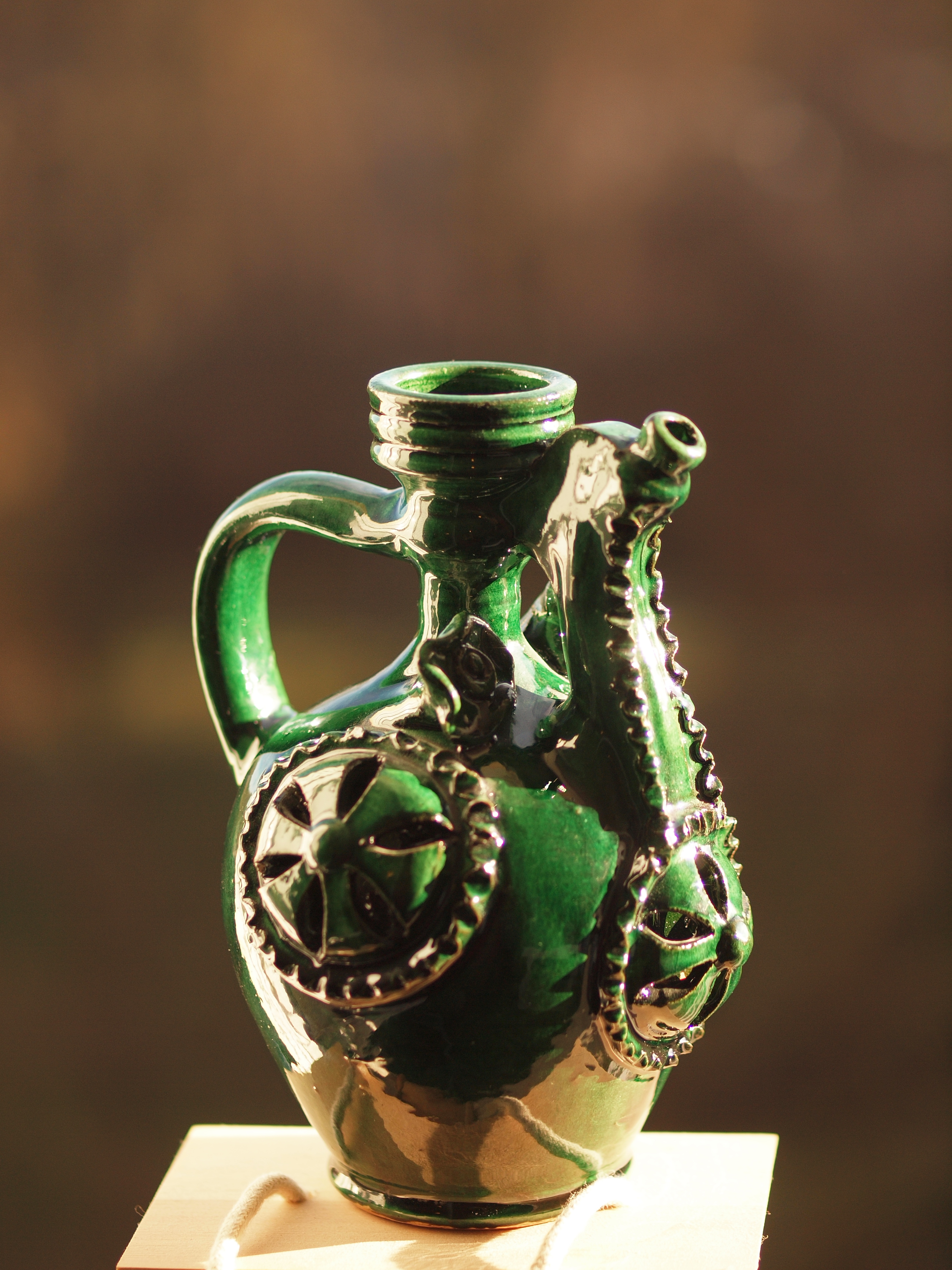 Bardak pottery traditional rakija tray Zajecar